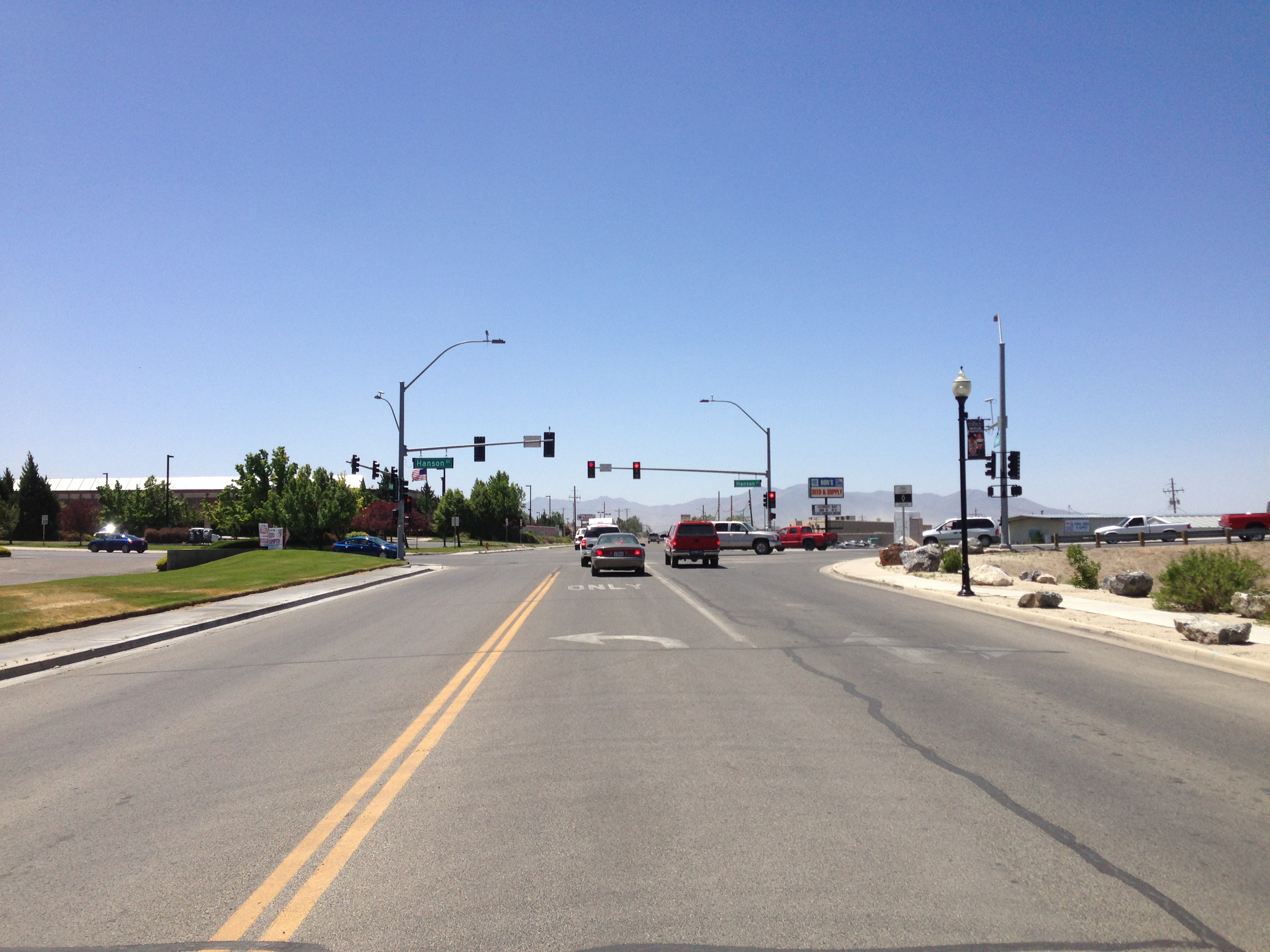 View south along Nevada State Route 294 (Haskell Street) at Nevada State Route 787 (Hanson Street) in Winnemucca, Nevada